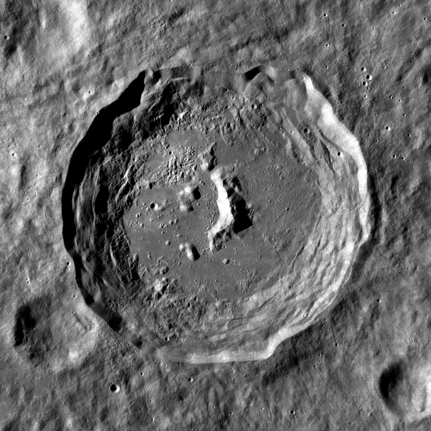 Crater Stevinus on the Moon, in highland region to the south of Mare Fecunditatis. Mosaic of photos by Lunar Reconnaissance Orbiter, made with Wide Angle Camera. Size of the image is 100×100 km, north is approximately up.